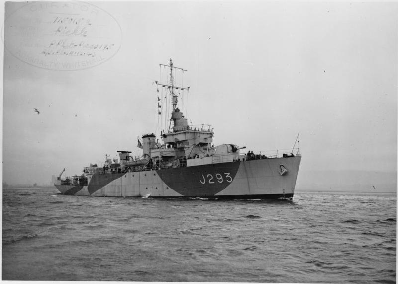 HMS Pickle Underway.